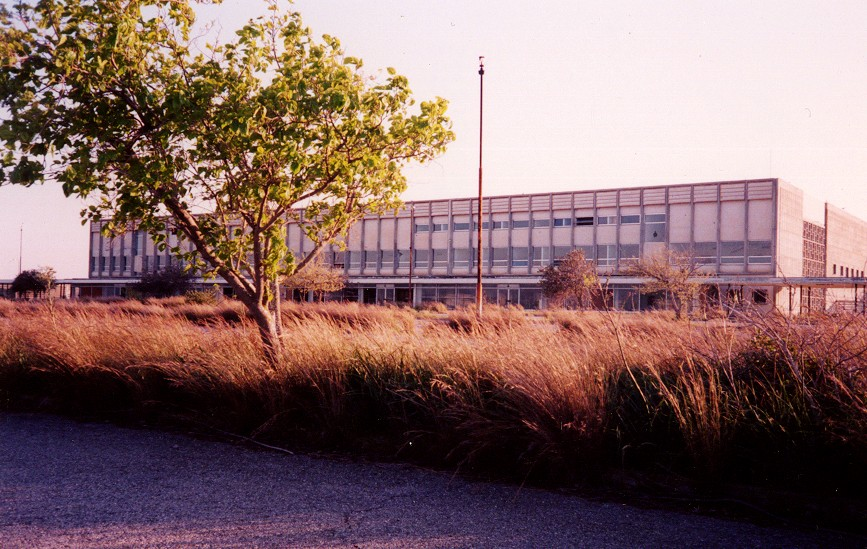 A view of the south side of the terminal building at the closed Nicosia International Airport in the United Nations Buffer Zone in Cyprus.